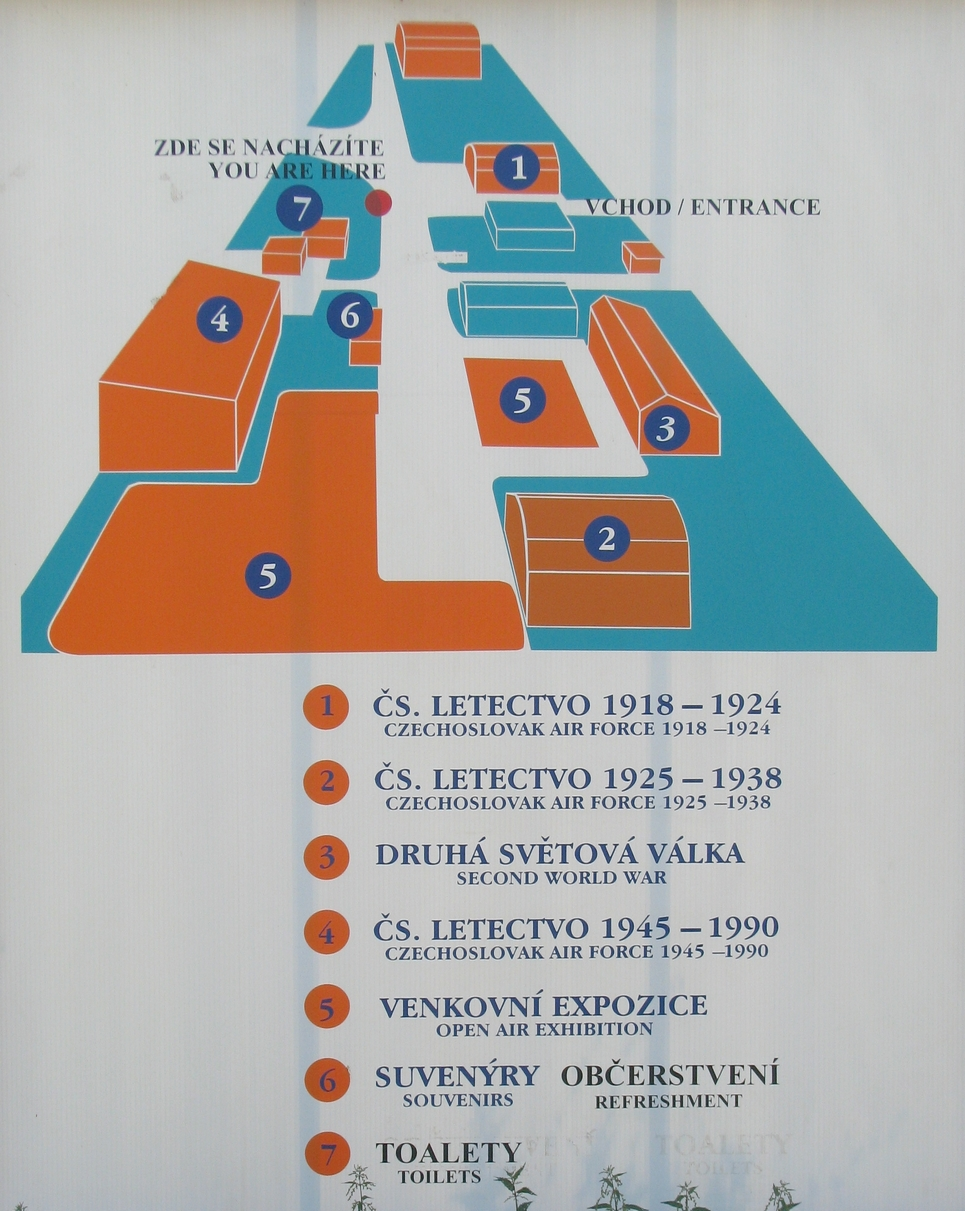 Information at the entrance of Kbely aviation museum in Prague (Czech Republic) until 2009